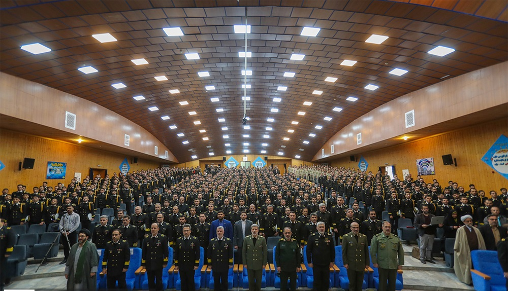 Naval University of Noshahr